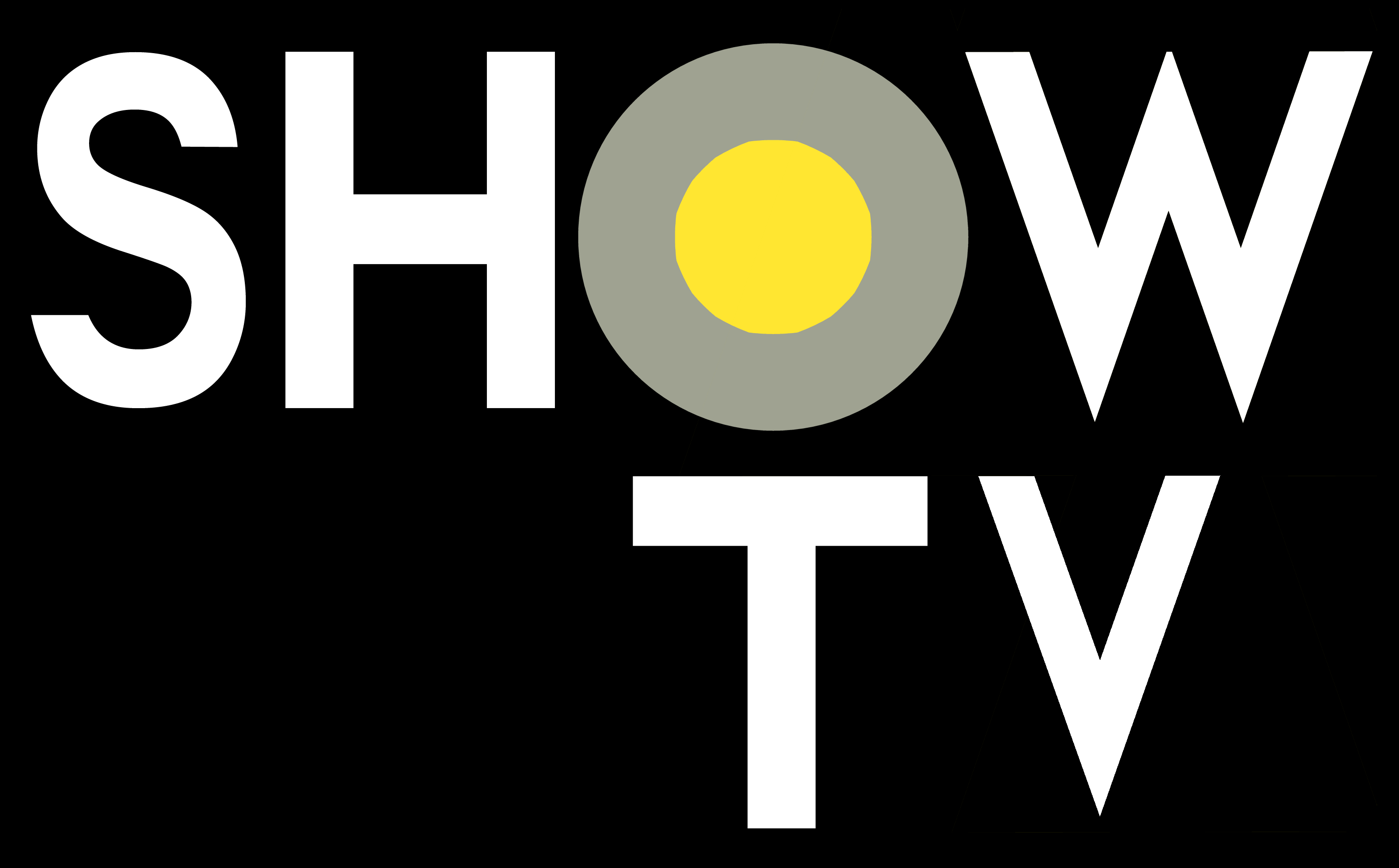 Former logo of Show TV.